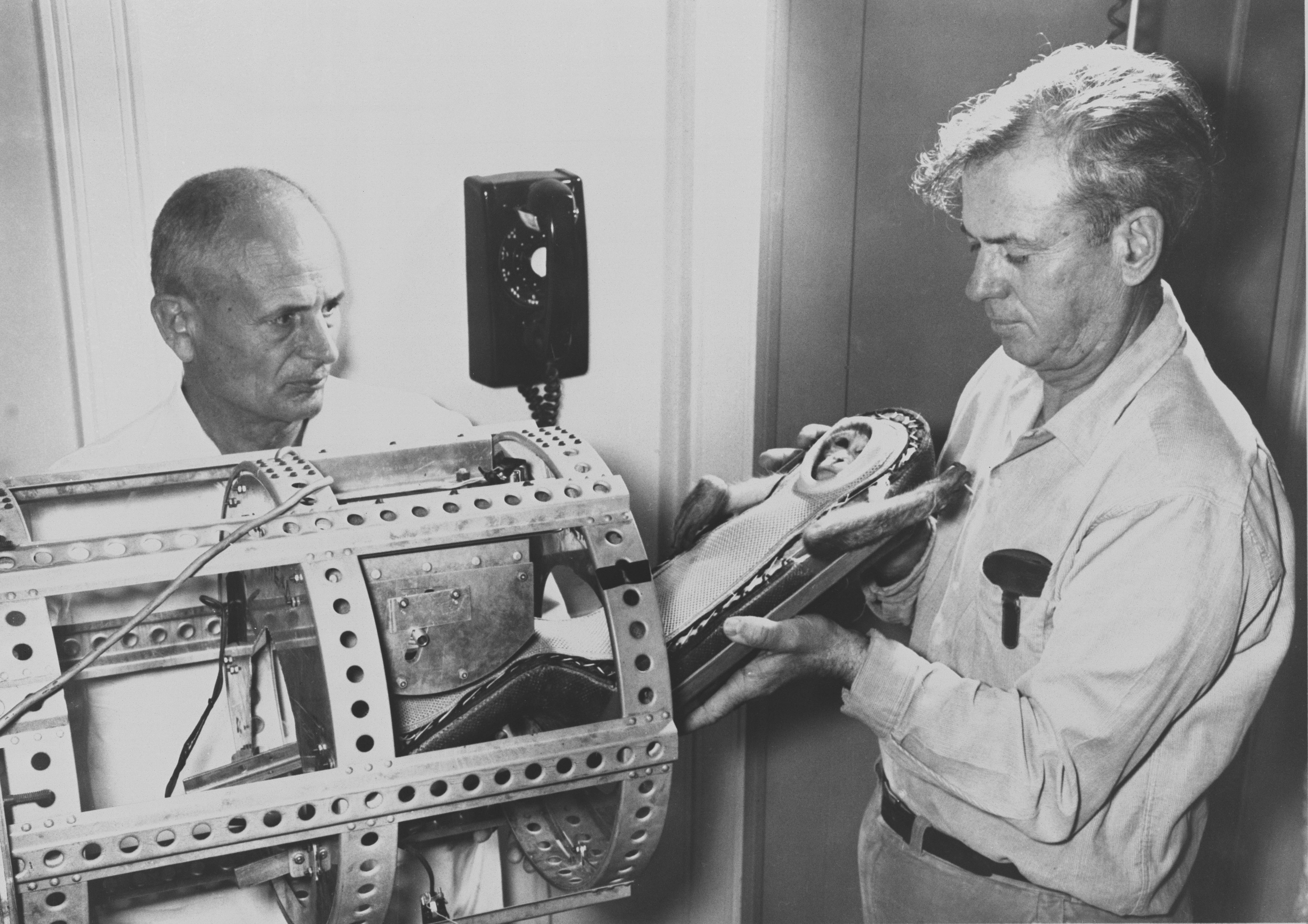 The test subject, a rhesus monkey named Miss Sam, is seen encased in a model of the Mercury fiberglass contour couch. She is being placed in a container for the Little Joe 1B suborbital test flight of the Mercury Capsule. Cropped to photo area, the original version contains image margins and caption as archived by NASA.